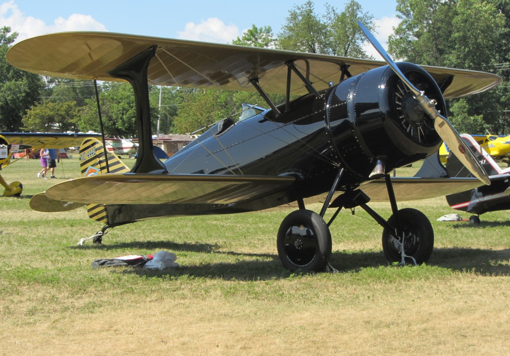 1929 Laird LCRW-300 Speedwing